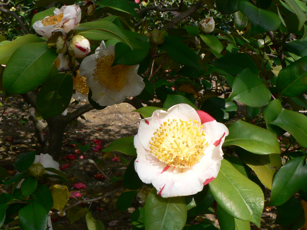 a Higo Camellia, a group of camellia japonica cultivars bred, selected and cherished by Samurais and their families.